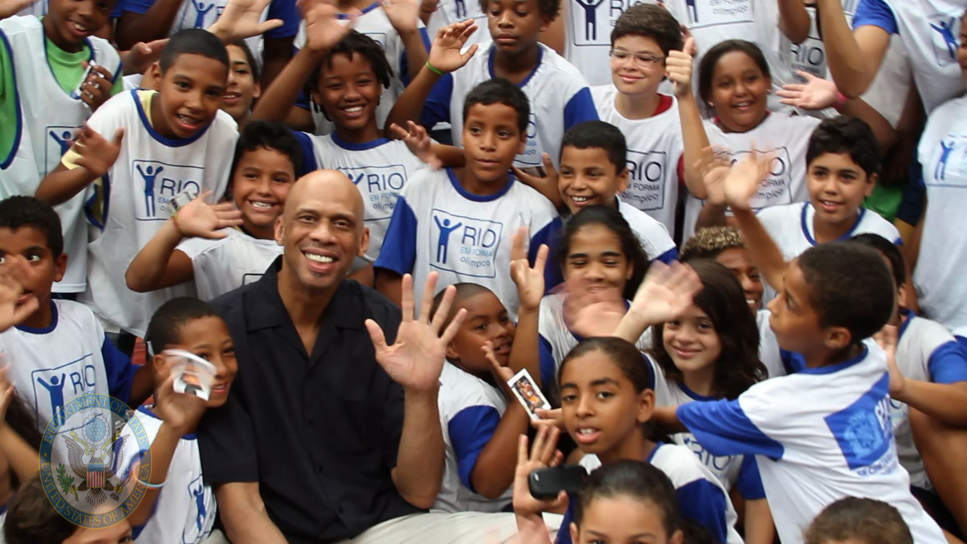 Hall-of-Famer and Global Cultural Ambassador for the U.S. Department of State Kareem Abdul-Jabbar poses for a photo with young Brazilians in Rio de Janeiro, Brazil, on January 26, 2012. [State Department photo/ Public Domain]